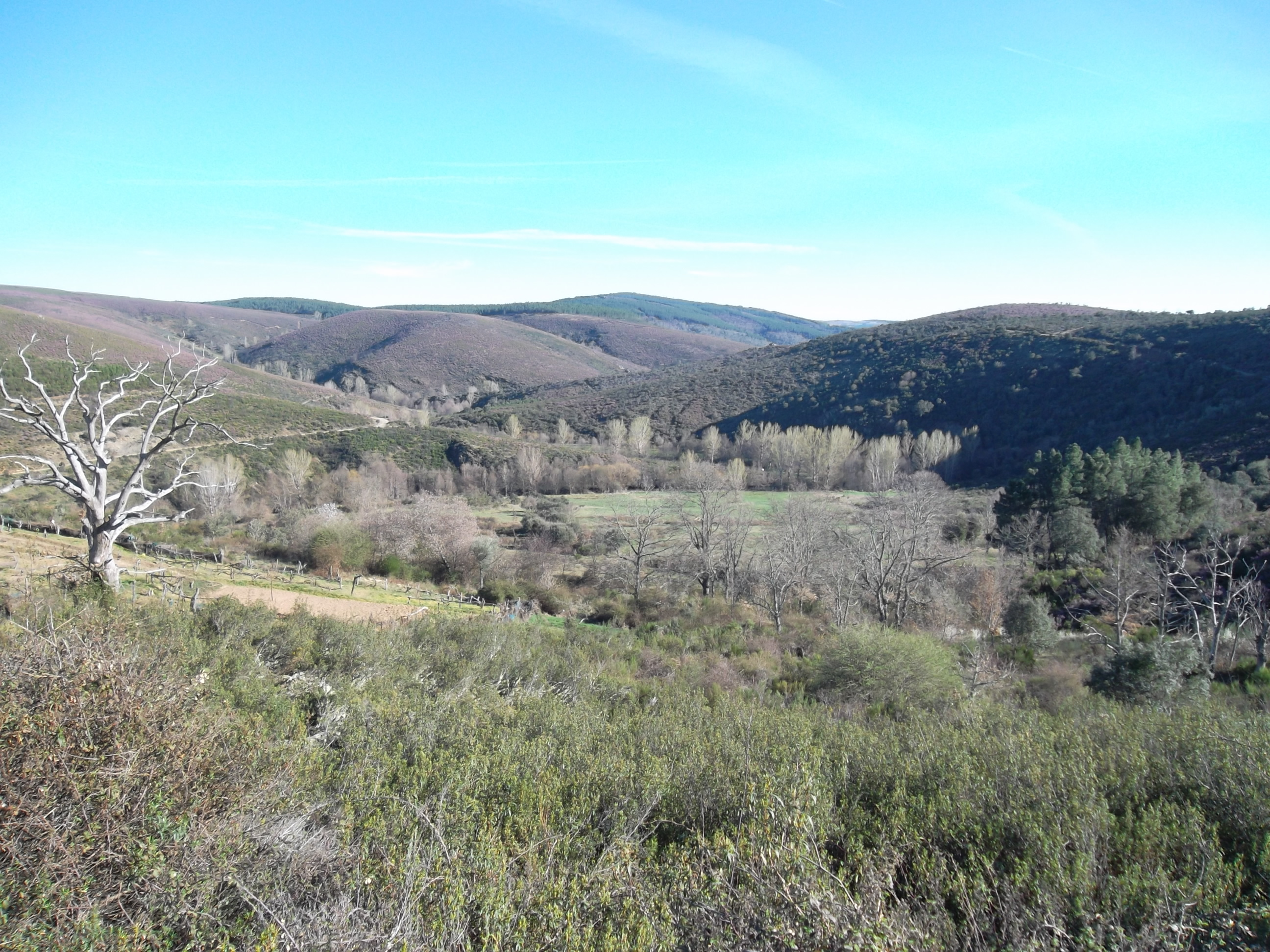 Road from Bragança to Rio de Onor